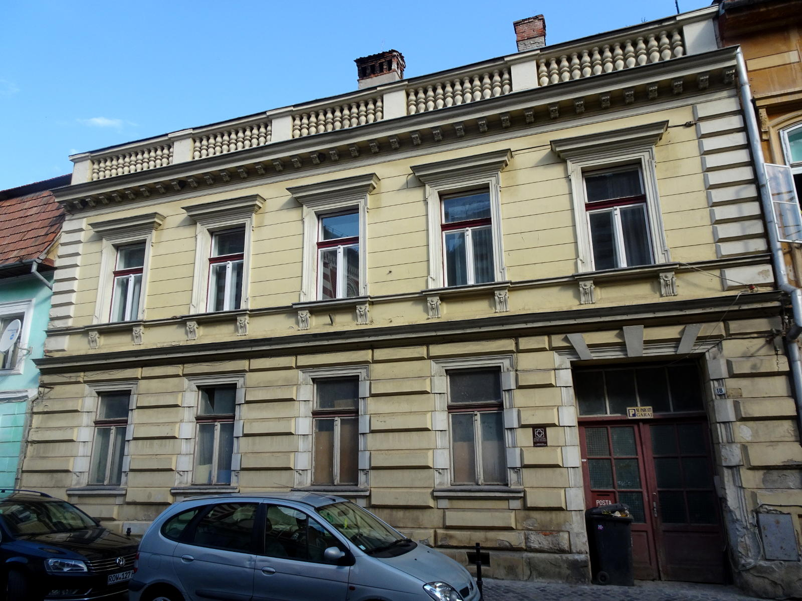 Poarta Schei street in Brasov, house number 18